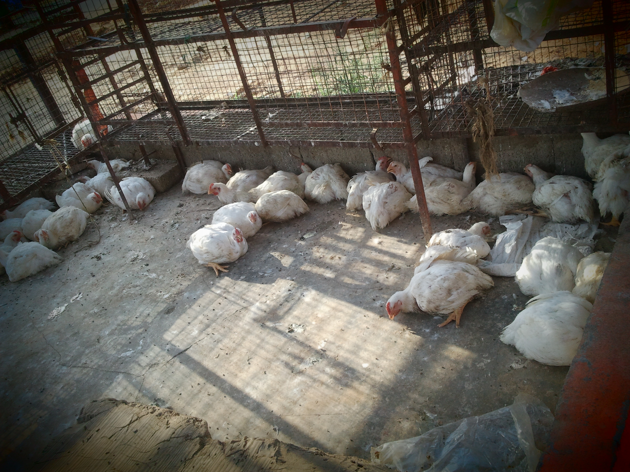 Broiler Chicken kept outside a chicken shop. Photo taken at Chandapura, Bangalore, India